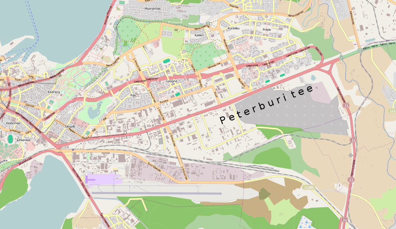 This map may be incomplete, and may contain errors. Don't rely solely on it for navigation.